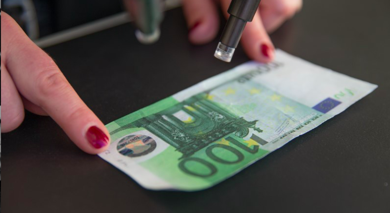 Counterfeit money